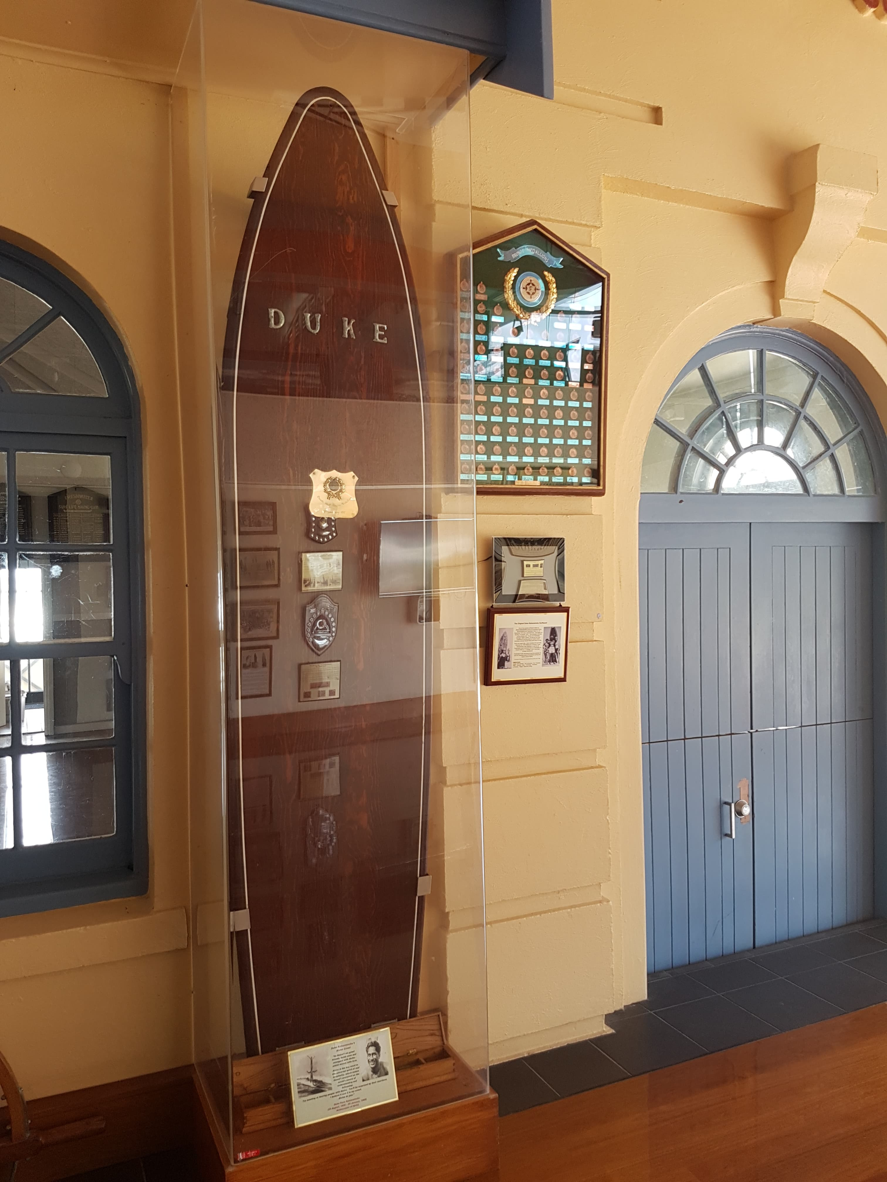 Duke Kahanamoku surfboard featured in Freshwater surf clubs heritage room